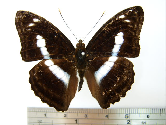 Kerry took this picture at his house on 16 July 2005 Scientific name: Athyma selenophora laela ♂ Date of collection: V 1996 Place of collection: Taipei city, Taiwan